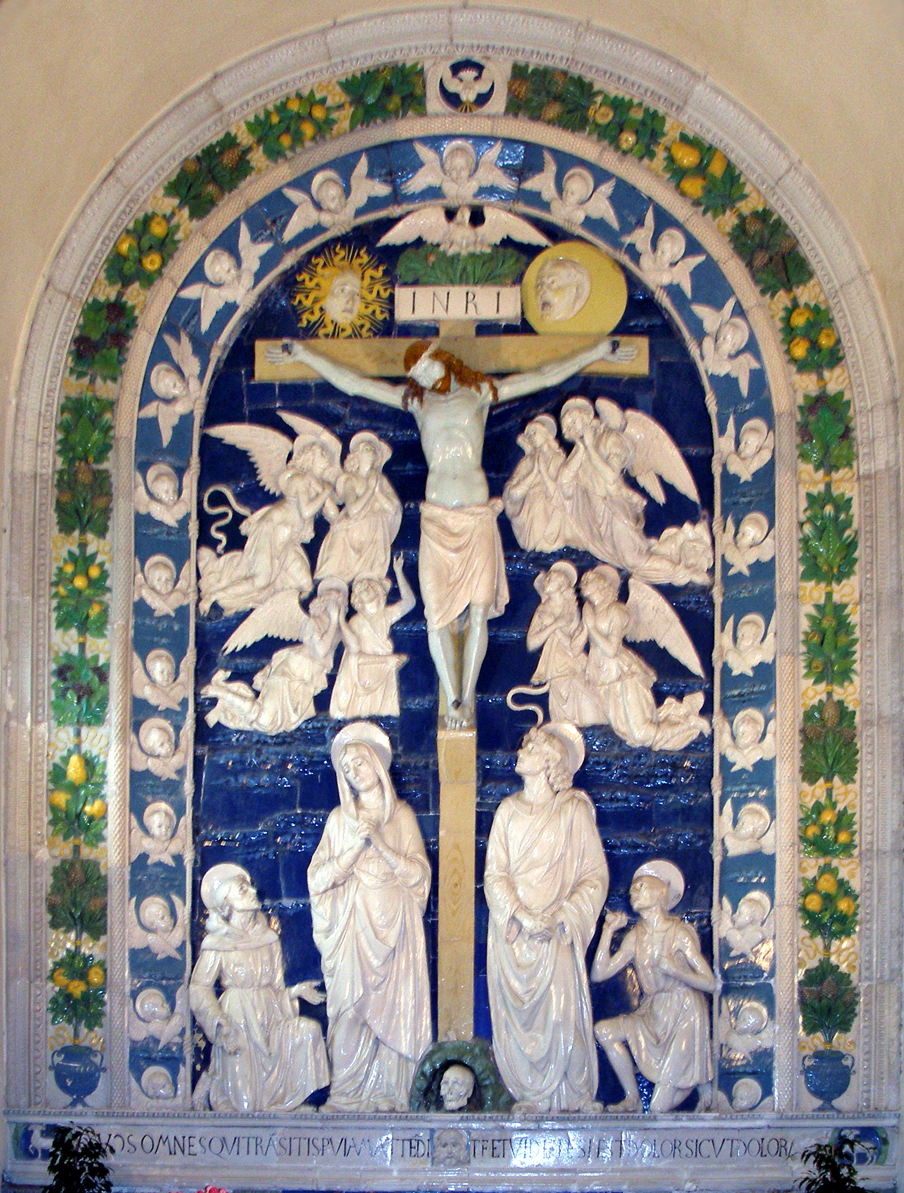 Andrea della Robbia: Crucifixion. La Verna, Italy